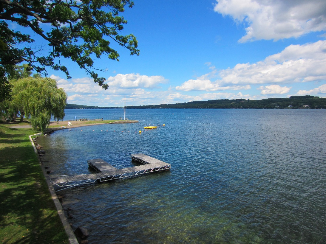 Point Neamo and the Keuka College lakefront on Keuka Lake, New York